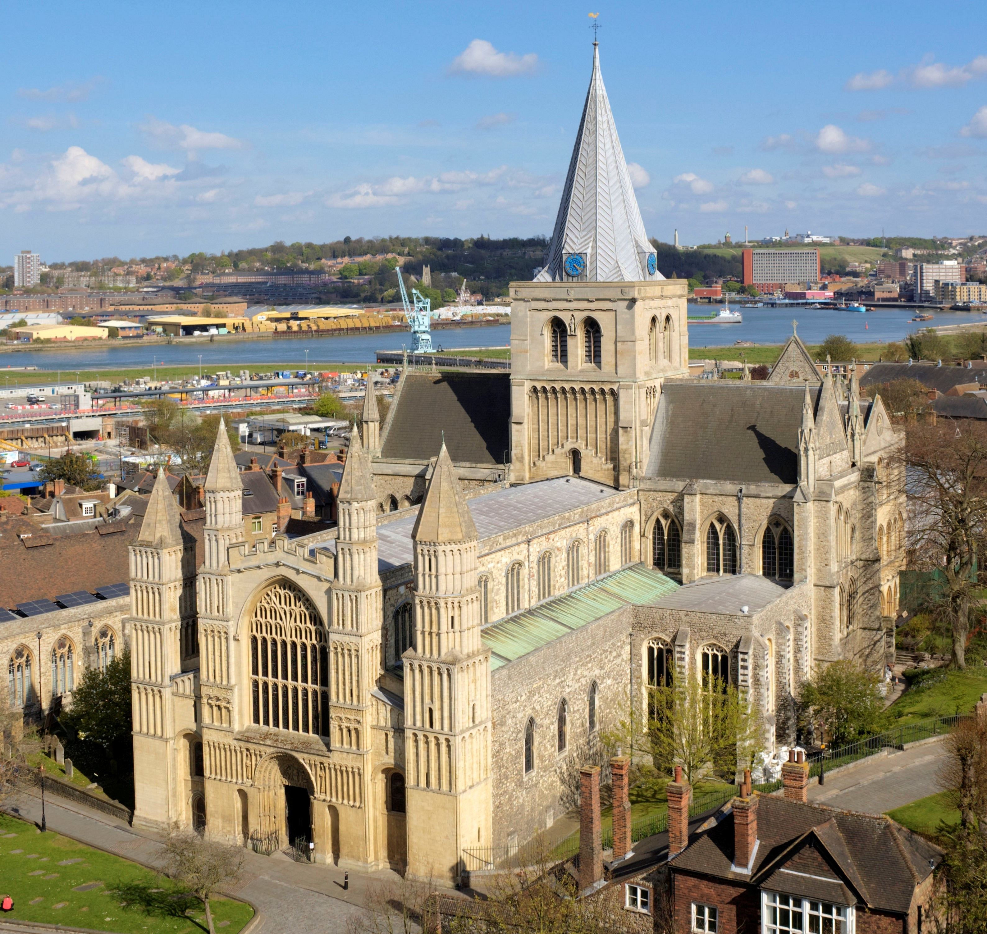 Rochester Cathedral